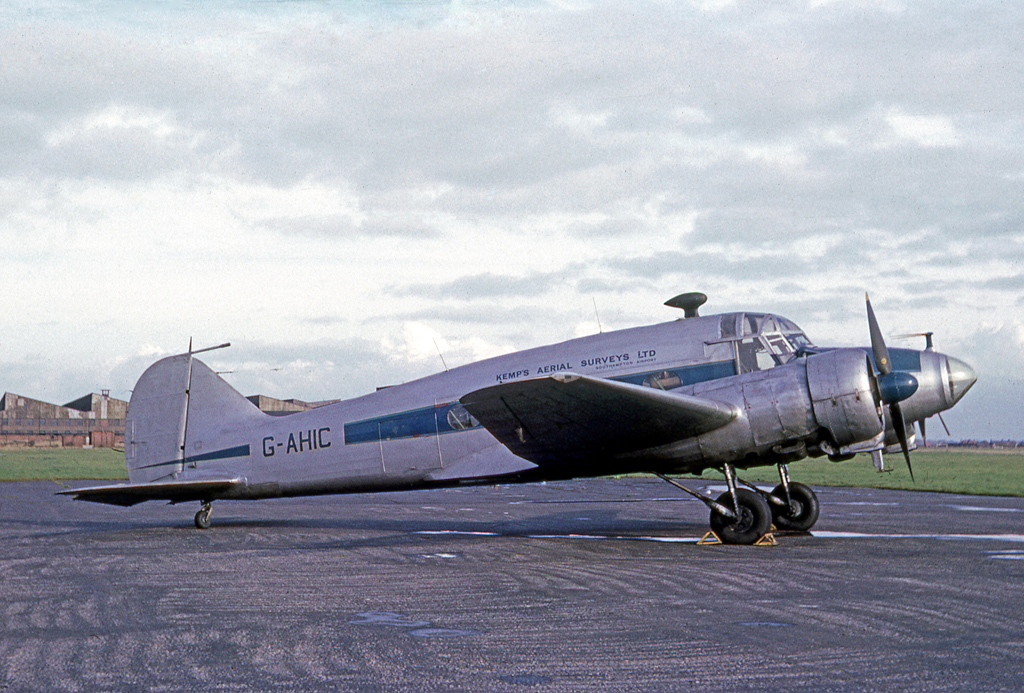 Avro Anson XIX G-AHIC of Kemps Aerial Surveys at Blackpool Squires Gate Airport in 1966